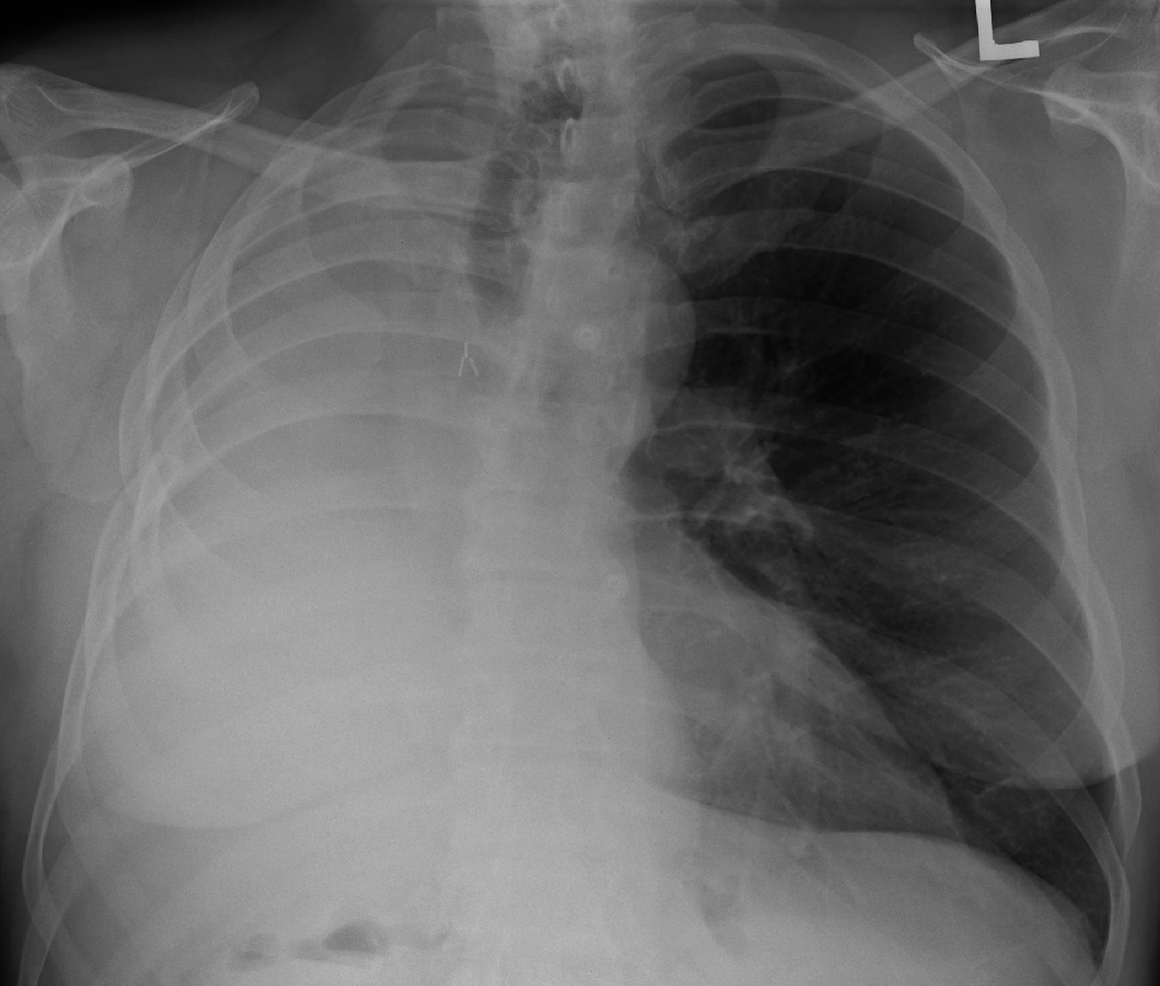 An chest xray of a person who has had their right lung removed